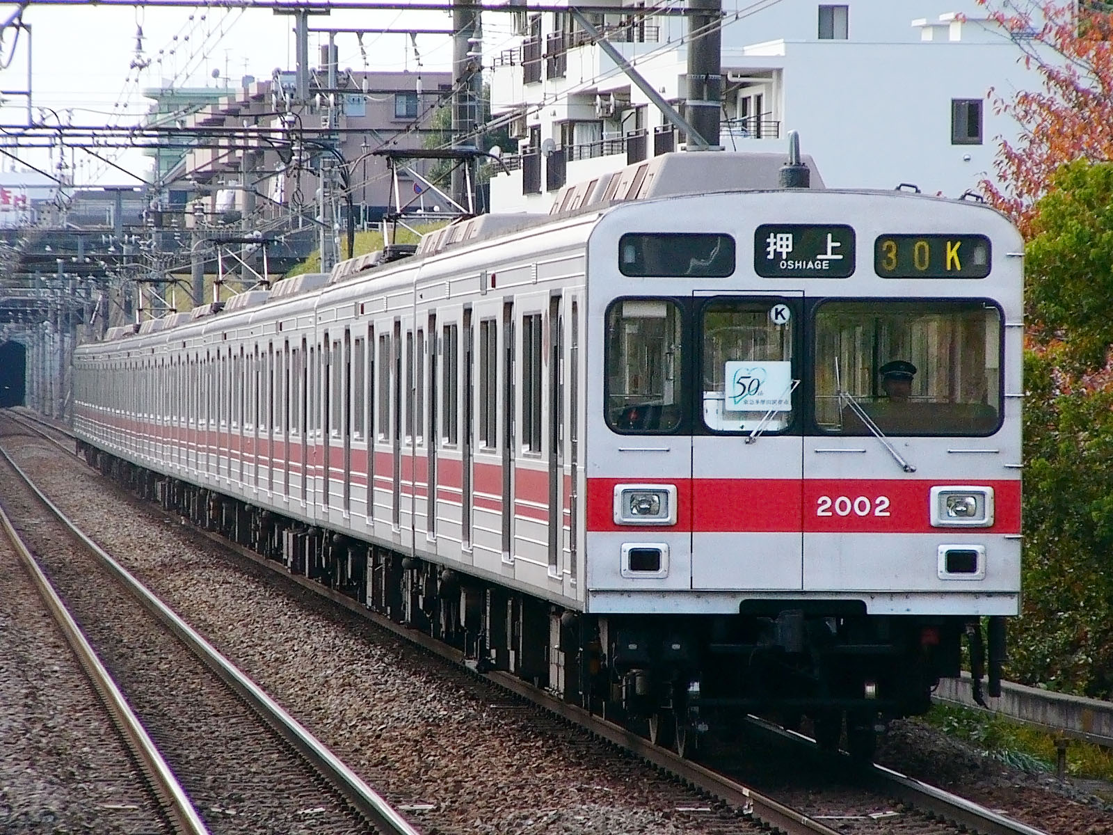 A Tokyu 2000 series EMU near Tsukimino Station on the Tokyu Den-en-toshi Line